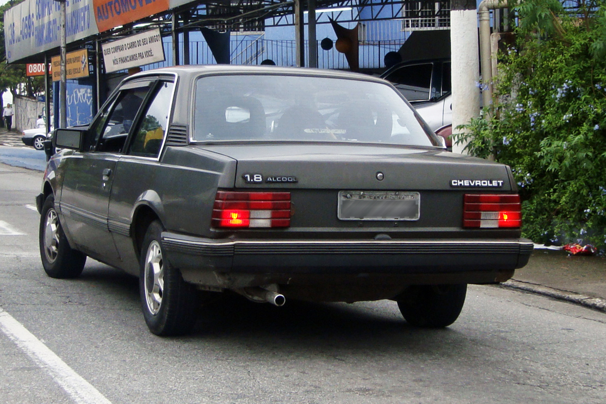 Brazilian Chevrolet Monza powered by a neat-ethanol engine (indicated by the badge Alcool in the rear of the car) still in use at Carapicuiba, Sao Paulo, Brazil